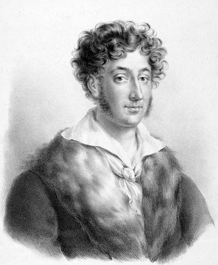 Italian opera singer Giuseppe De Begnis (1793-1849). Original caption: "This portrait made on the occasion of his being appointed Director and Instructor of the Pupils of the Royal Academy of Music for the Dramatical Department, in which they met with the most brilliant Success at the English Opera House Dec 8th, 1828 [...]".